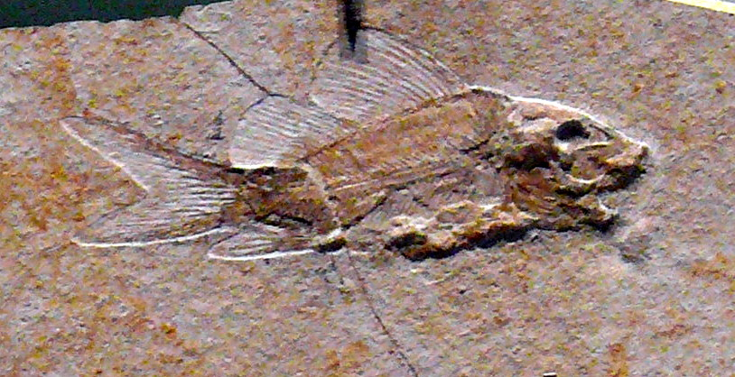 Histionotus oberndorferi